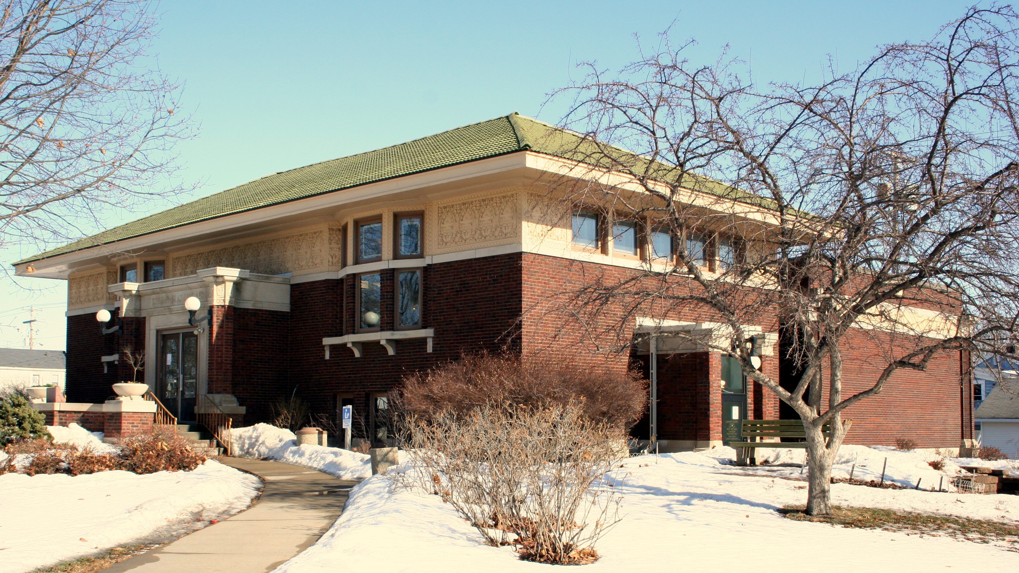 Public Library in Tomah, Monroe County, Wisconsin (Claude and Starck, 1916). It is one of the "seven sisters" of Prairie School-style libraries of the roughly 40 libraries designed by the firm of Claude and Starck.